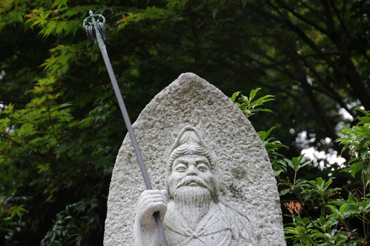 Statue along the way on Mount Misen. Maybe a sekibutsu (石仏) ( "Stone Buddha"), meaning a movable Buddhist statue carved from stone. More specifically this is a Dōsojin refering to Shintō deities of roads and borders. A different kind of Jizo but with a six-ringed staff 錫杖, shakujō (Khakkhara in Sanskrit 'Sounding Staff").